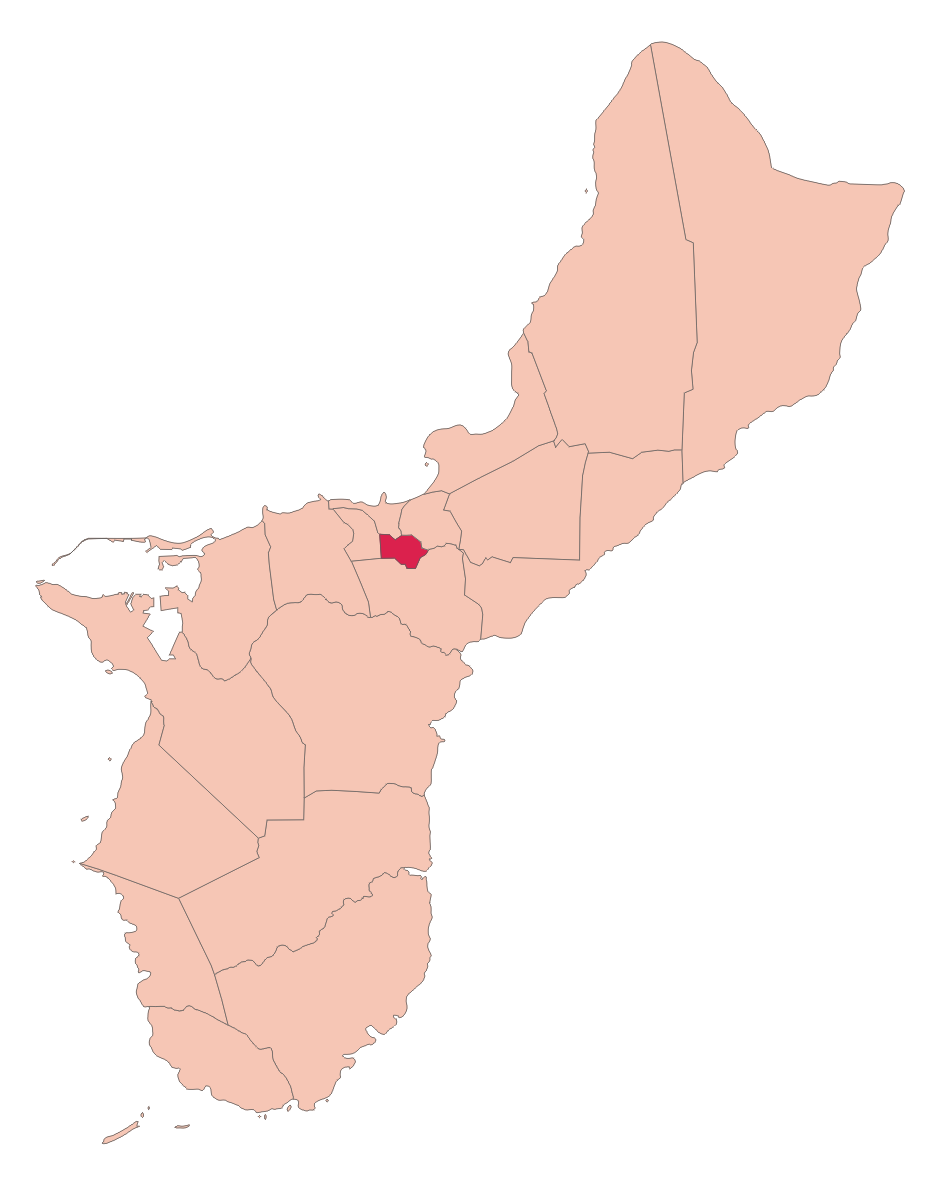 Municipalities of Guam: SinajanaChamoru: Sinahåña (Guåhån).